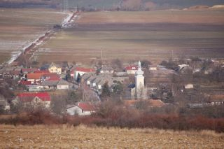 Village of Brezina from the lipovec hill